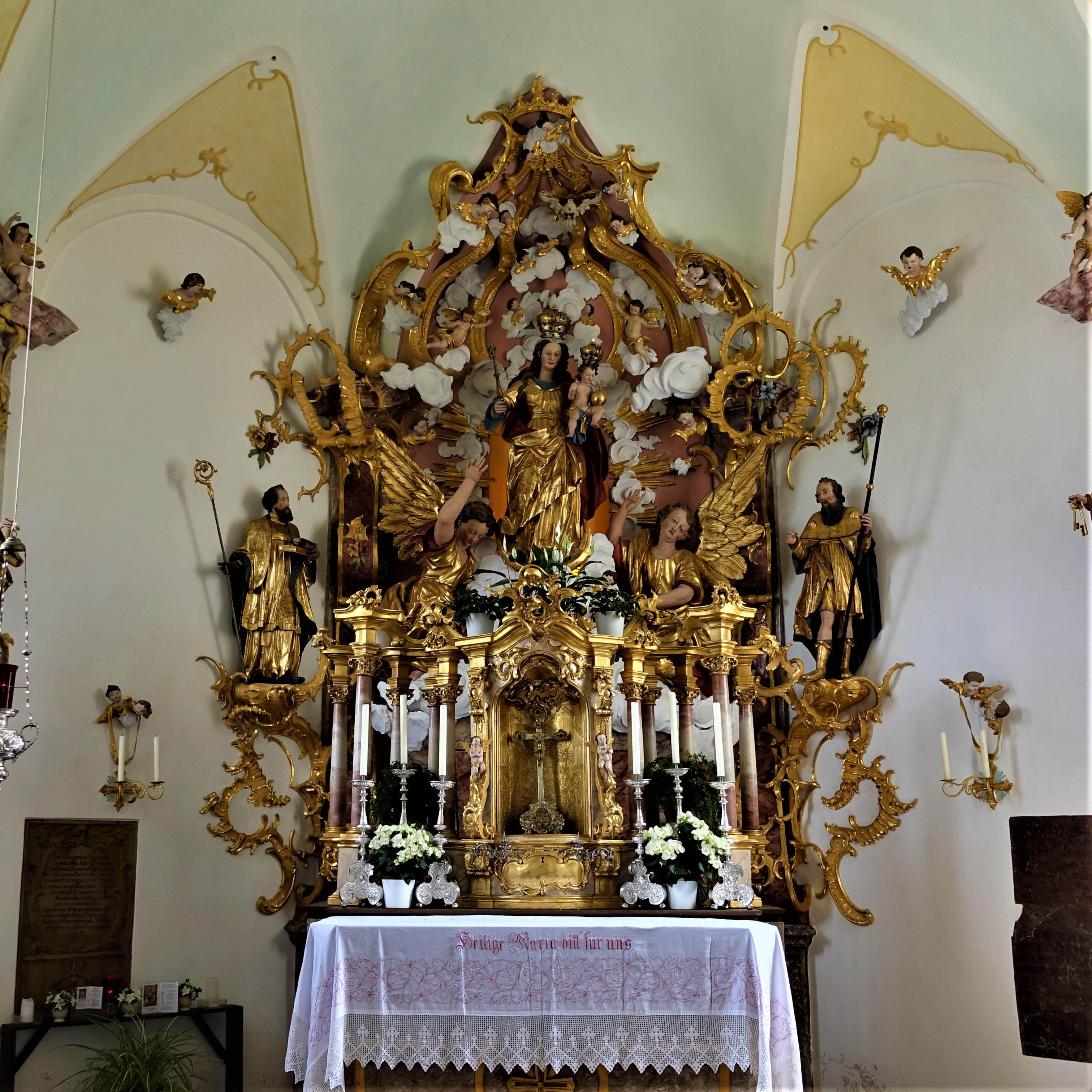 Altar in the church of Mariä Geburt in Eschelbach / Erding, Rokkoko-style ("Wessobrunner Schule" ca 1765)This is a photograph of an architectural monument.